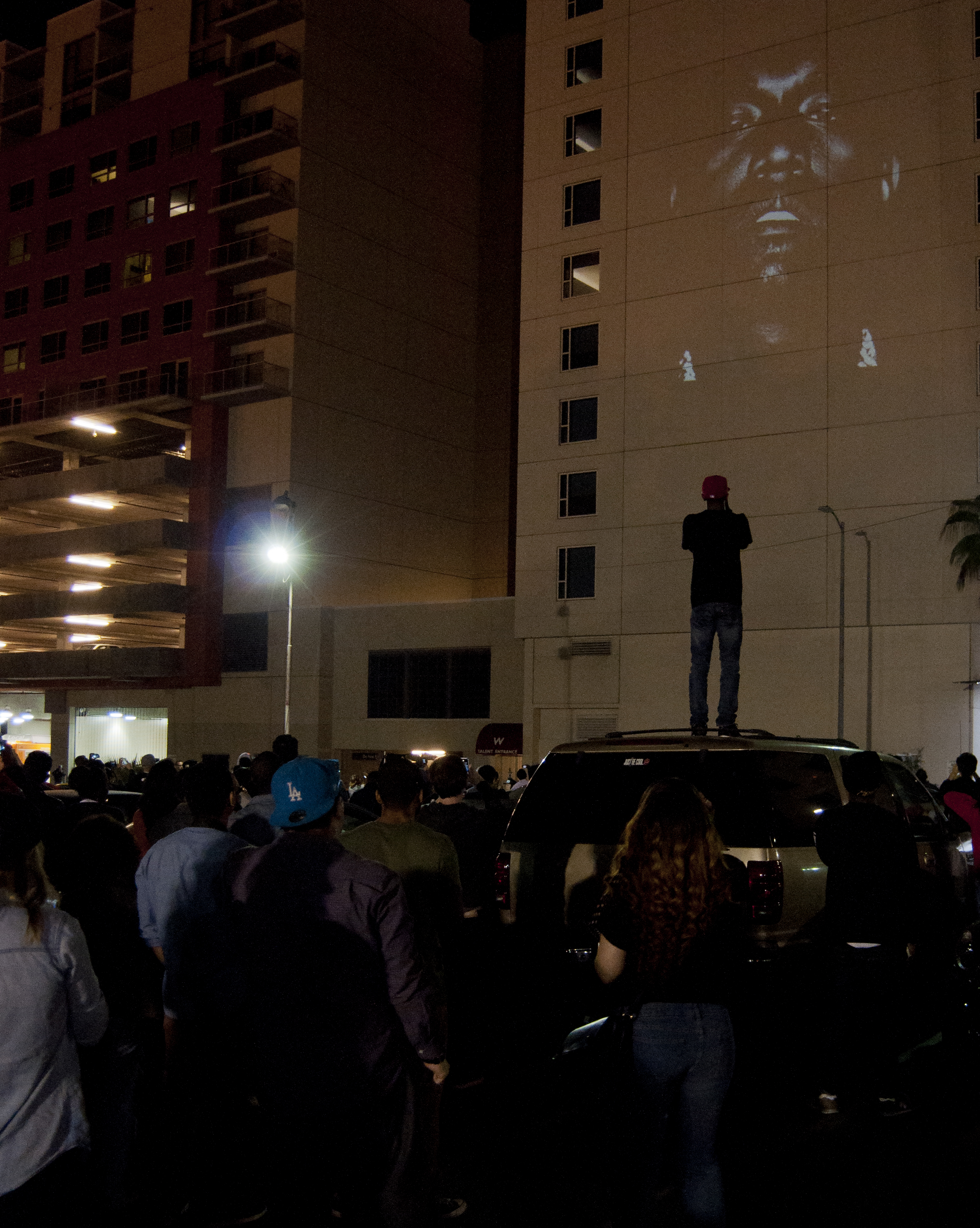 New Slaves Flickr Tags: Kanye West Los Angeles Hollywood W Hollywood New Slaves Flash Mob Music Video Hipsters Late 1:15am 5/17 5/18 Promotion Internet Publicity Premiere Camera Phone Standing on Car Projection Guerilla.